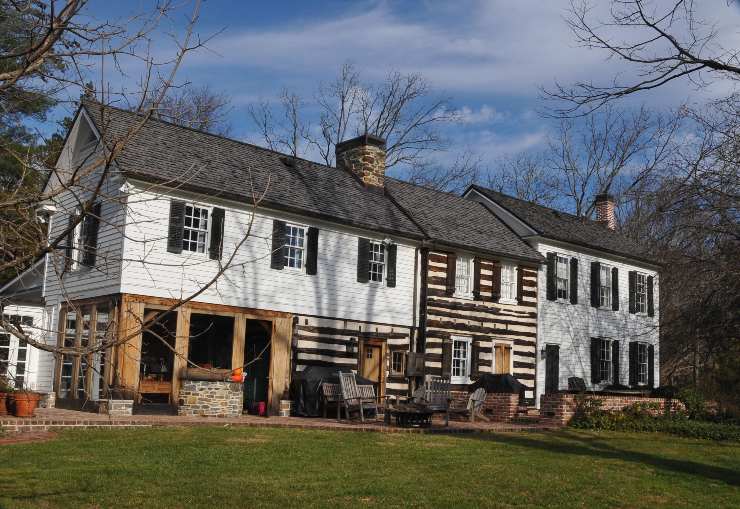 FOUR STAIRS FARM IN GREAT FALLS; THE MIDDLE PORTION DATES TO 1730 AND THE ADDITIONS WERE ADDED IN THE 1790’S WHEN CAPTAIN JOHN JACKSON, JR. OWNED THE PROPERTY